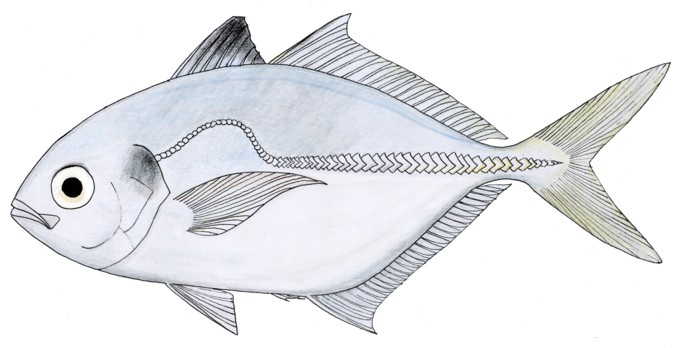 Hand drawn and pencil coloured diagram of the blackfin scad, Alepes melanoptera. Based on Carpenter (2002) and photos by JE Randall (colour).